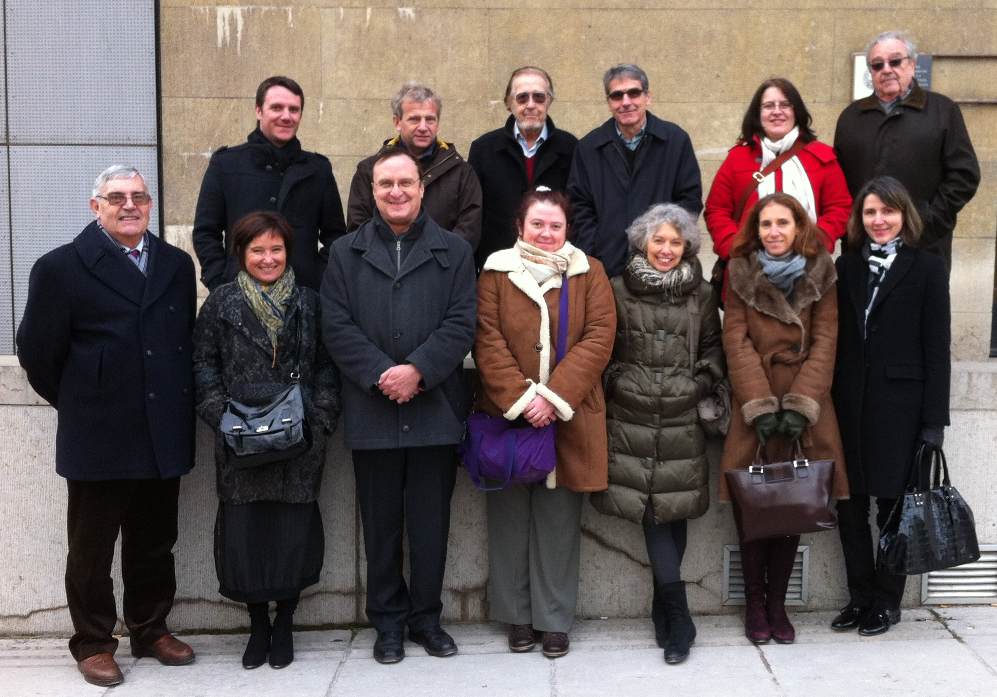 Conseil d'Administration de la Société Française de Parasitologie - 22 janvier 2015 Photograph taken in the gardens of the Muséum National d'Histoire Naturelle, Paris Rear row (left to right): Aurélien Dumètre Stéphane Picot Jean-Antoine Rioux Michel Franc Coralie Martin René Houin Front row (left to right): Gilles Dreyfuss Laurence Delhaes Pascal Boireau Sandrine Cojean Marie-Laure Dardé Isabelle Villena